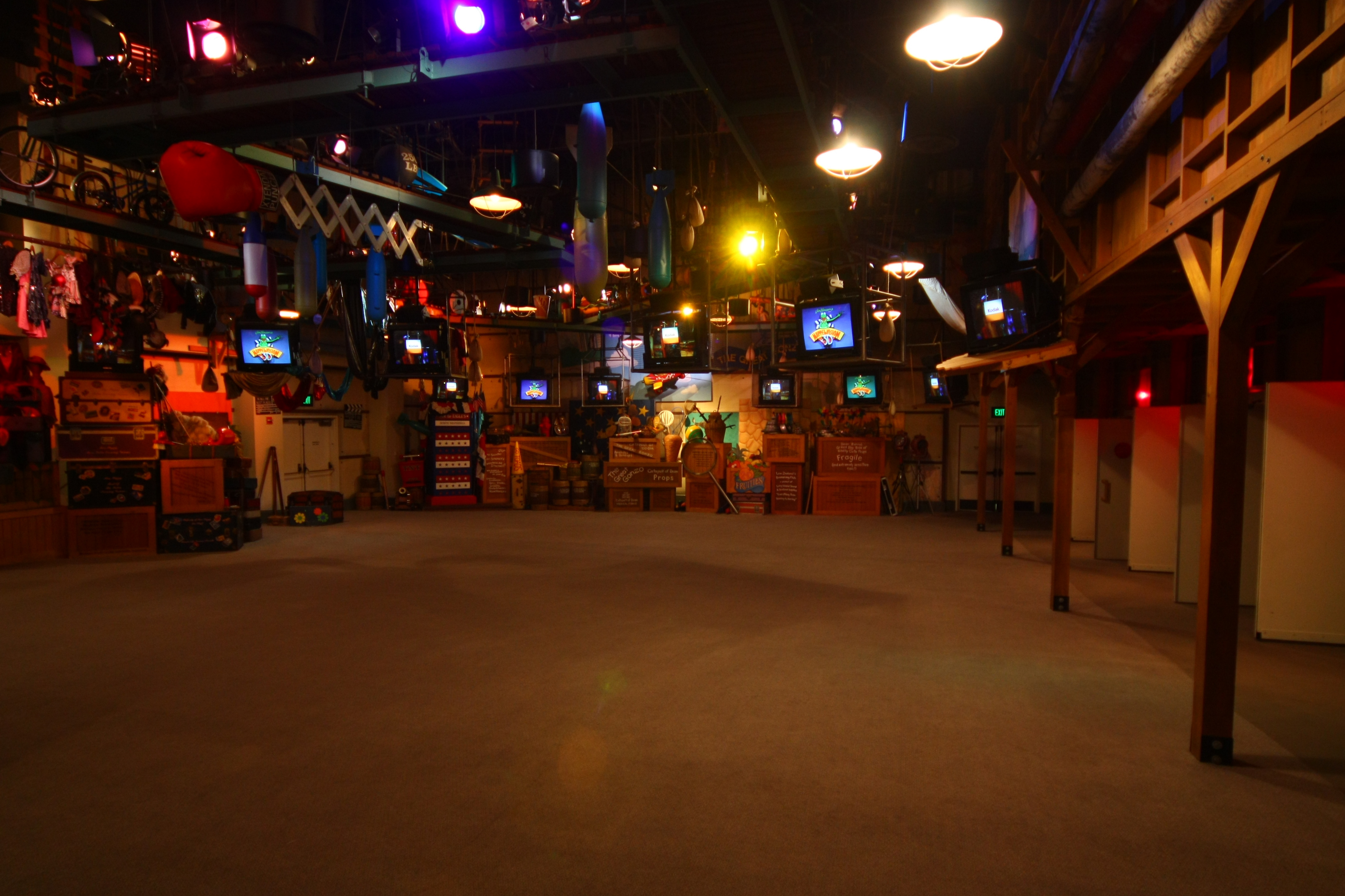 The preshow area of Muppetvision 3D at Disney's California Adventure.